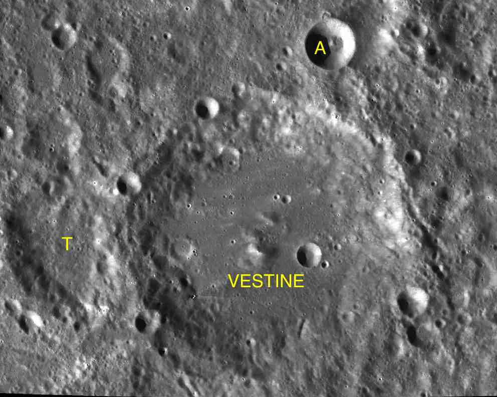 Part of the chart LAC-29 used for the presentation